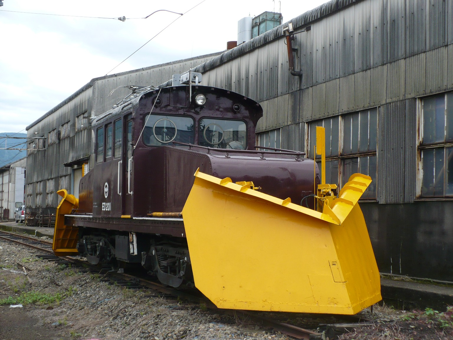 Hokuriku railway type ED20 electric locomotive parking at Tsurugi depot.